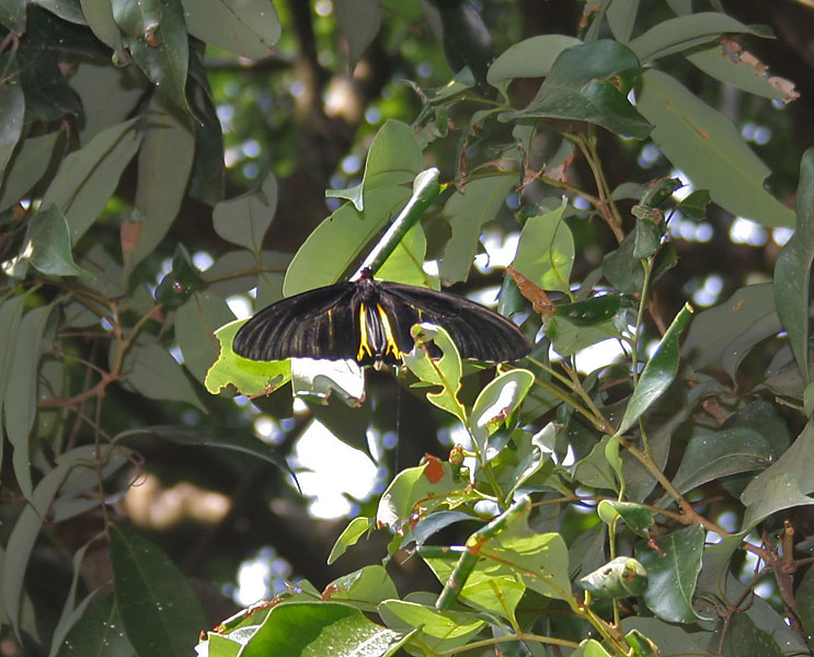 Common Birdwing Troides helena at Jayanti in Buxa Tiger Reserve in Jalpaiguri district of West Bengal, India.